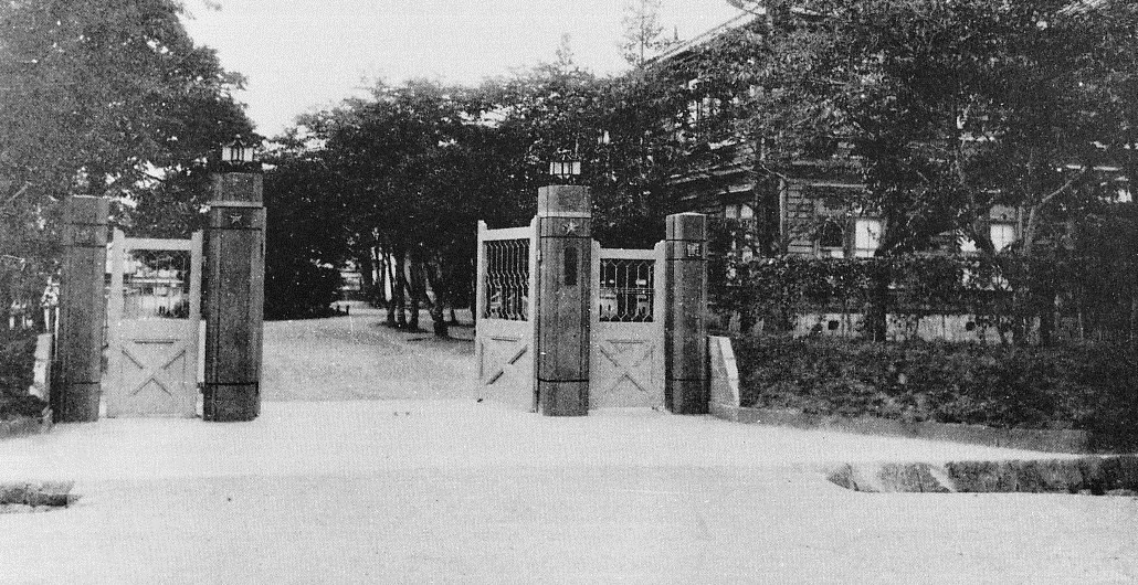 Shizuoka Middle School